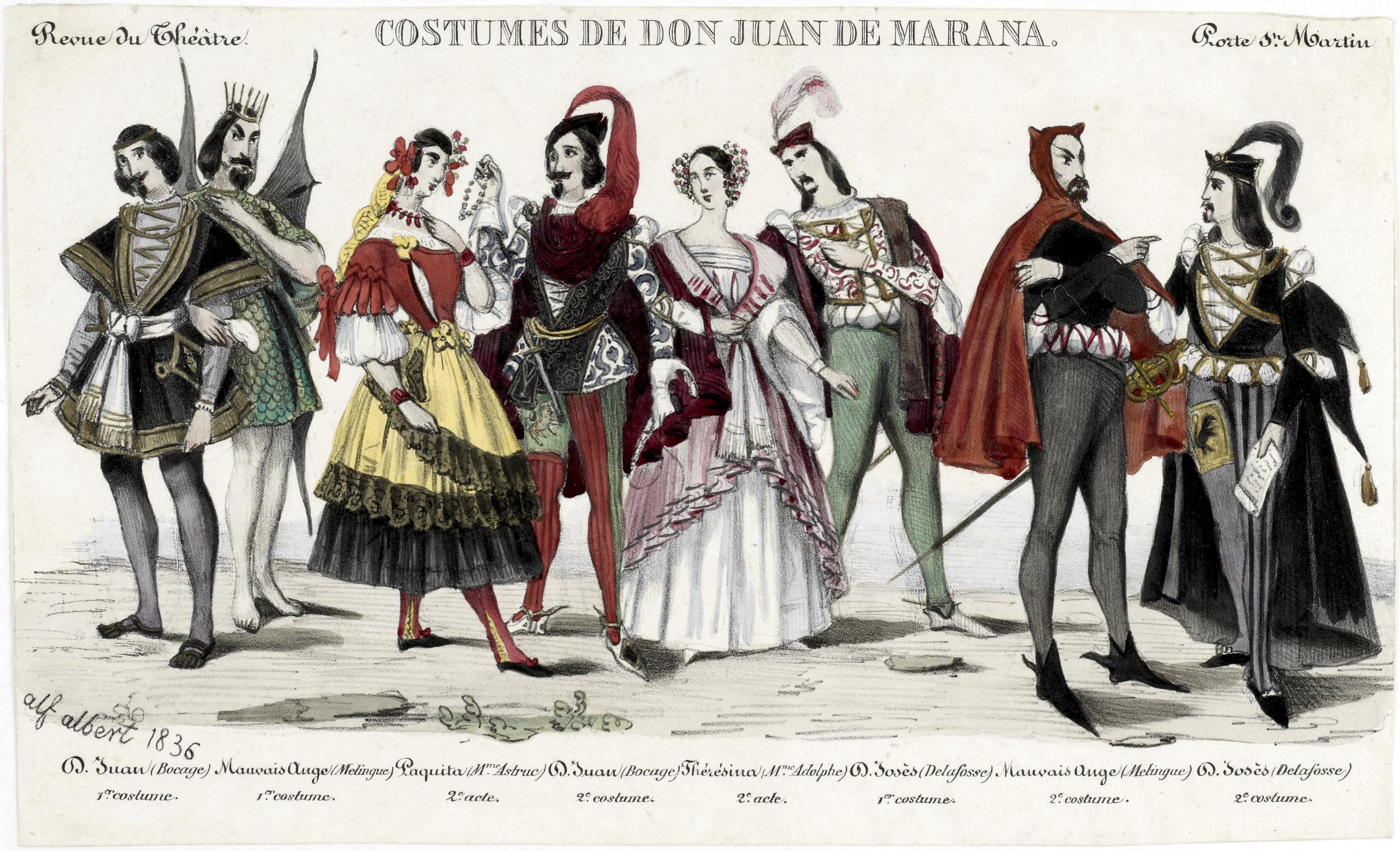 Bocage, Étienne Mélingue, Madame Astruc, Madame Adolphe, Delafosse in costumes in Don Juan de Marana ou La chute d'un ange : mystère en 5 actes et 7 tableaux / texte d'Alexandre Dumas. - Paris : Théâtre de la Porte Saint-Martin, 30-04-1836.